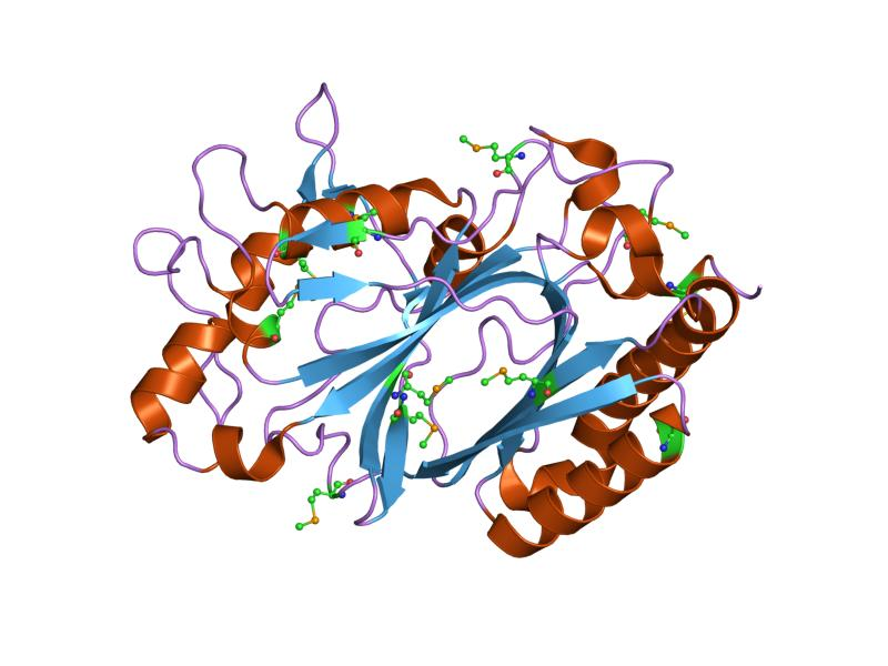 Cartoon representation of the molecular structure of protein registered with 2hag code.